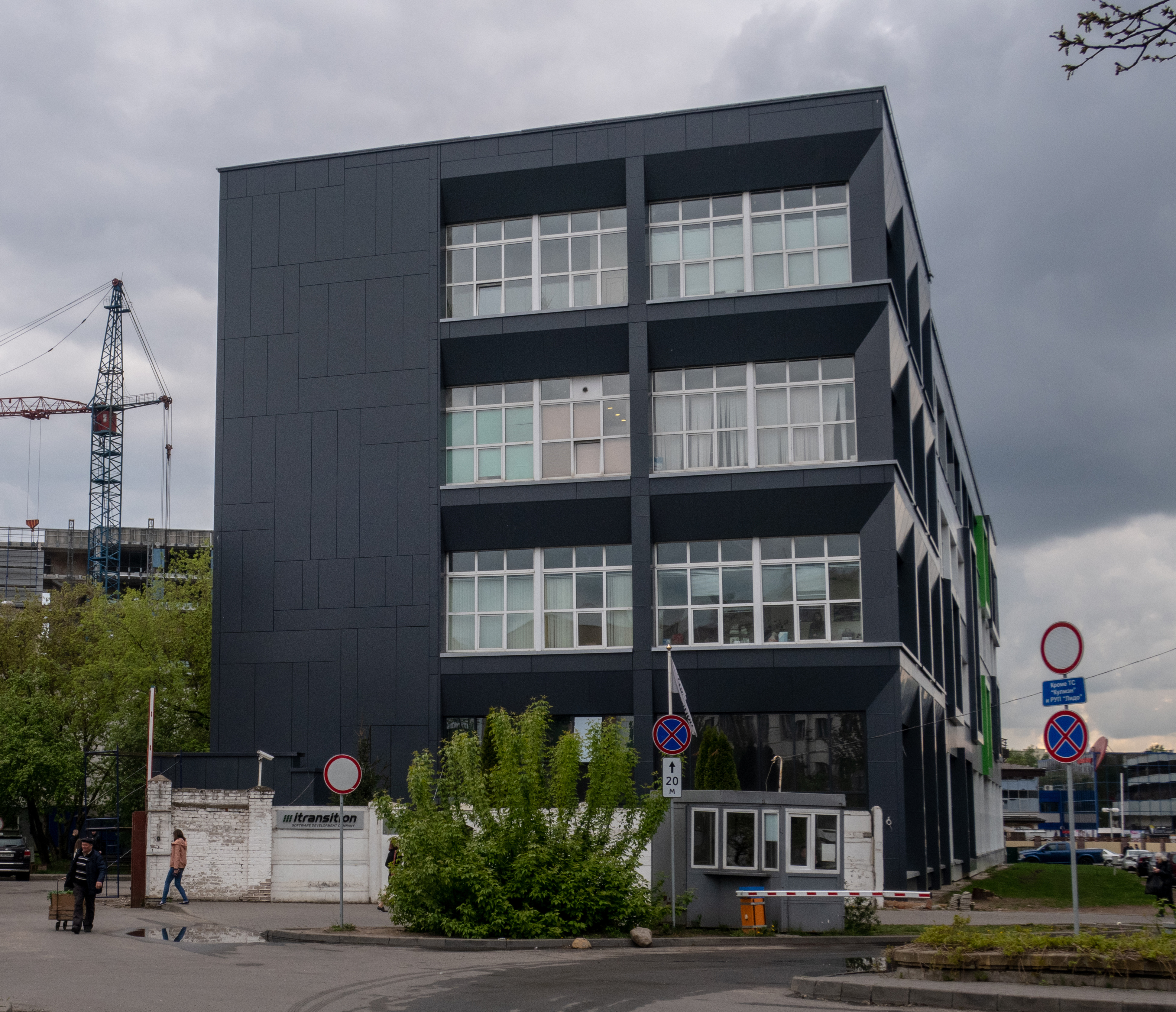 Kuĺman Street (Minsk, Belarus). Itransition office